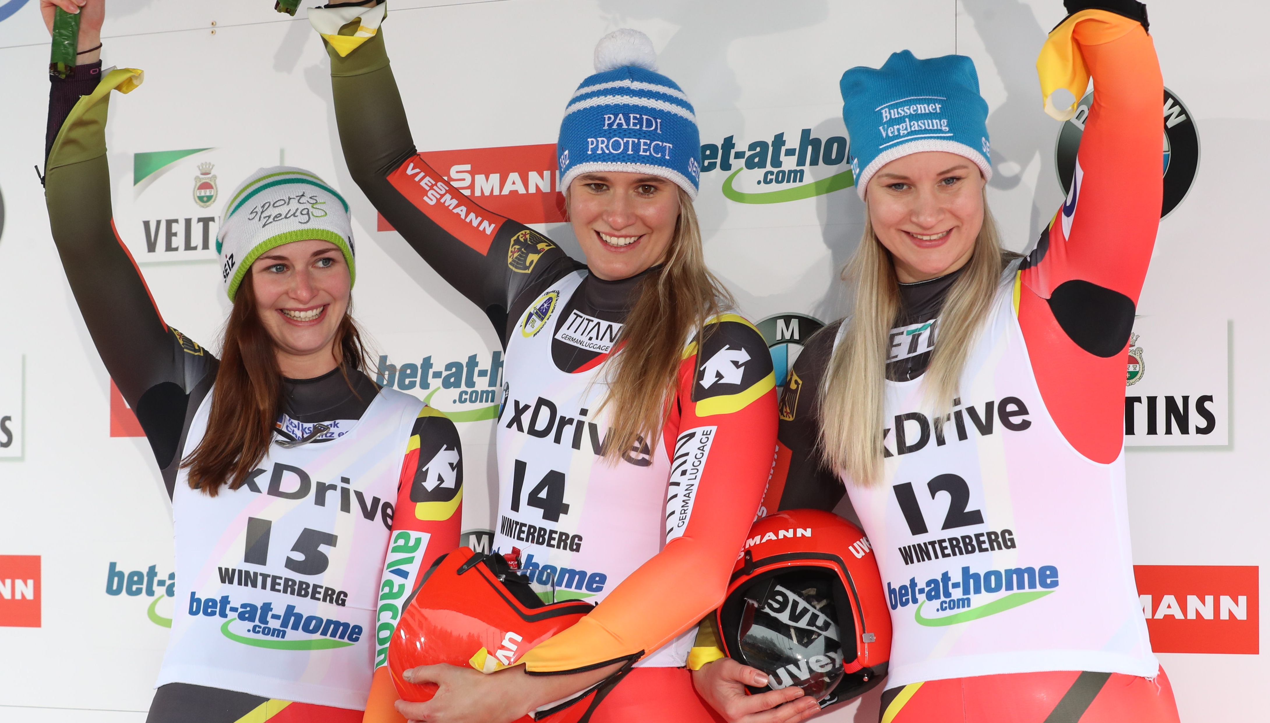 Women's Sprint World Championships at the FIL World Luge Championships 2019 in Winterberg